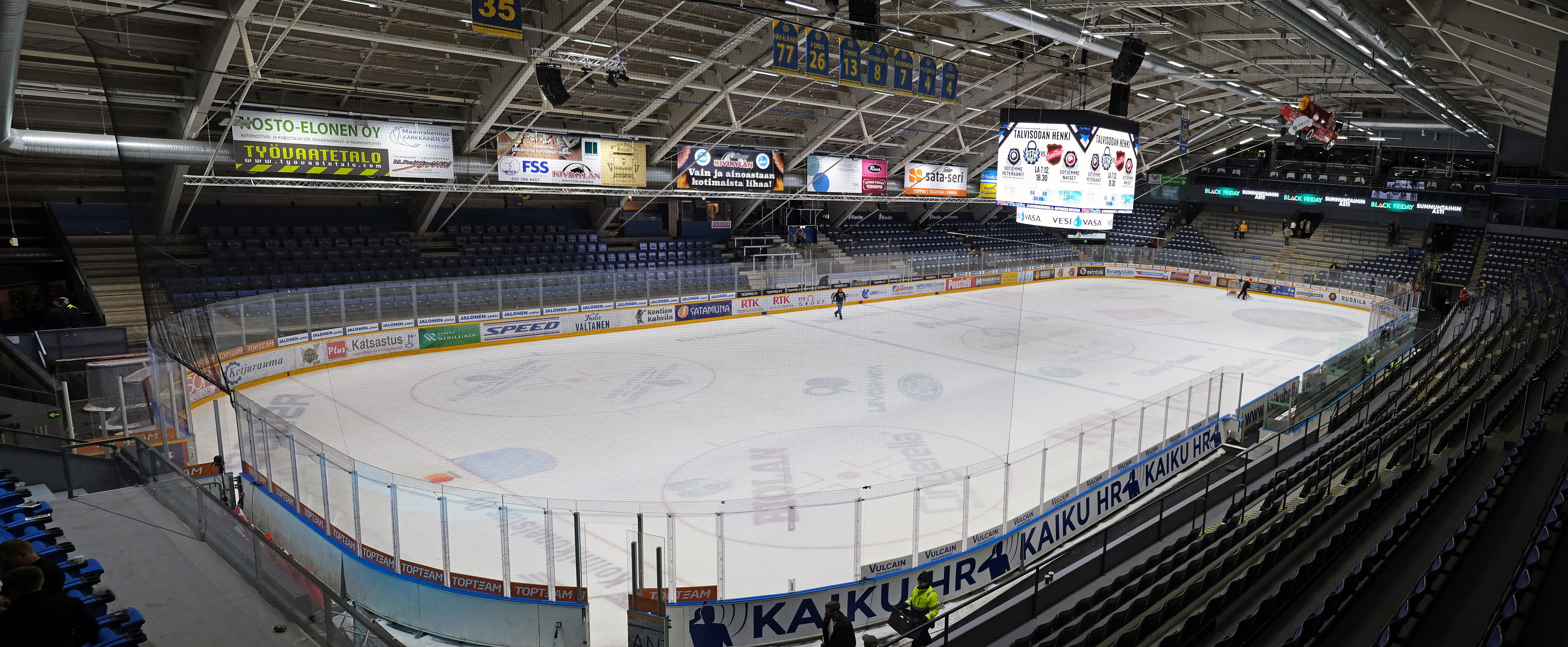 Lukko-Ässät 30-11-19